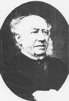 Sir Henry William Ripley (1813-1882), founder of Ripleyville in Bradford, West Yorkshire, England. He was a businessman, philanthropist and politician.